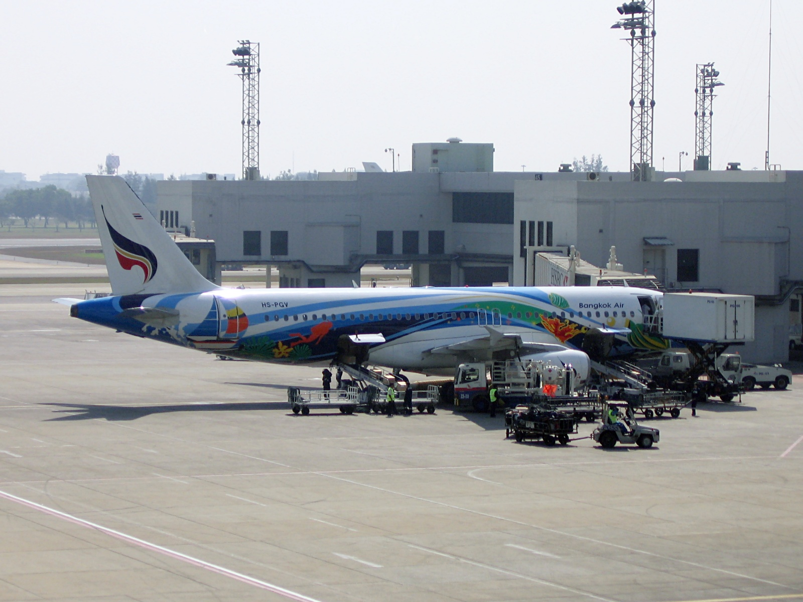 Bangkok Airways Airbus A320-232 at Don Mueang Bangkok International Airport.